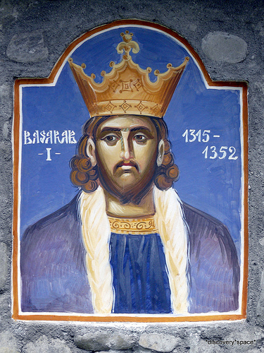 Basarab I the Founder, prince of Wallachia